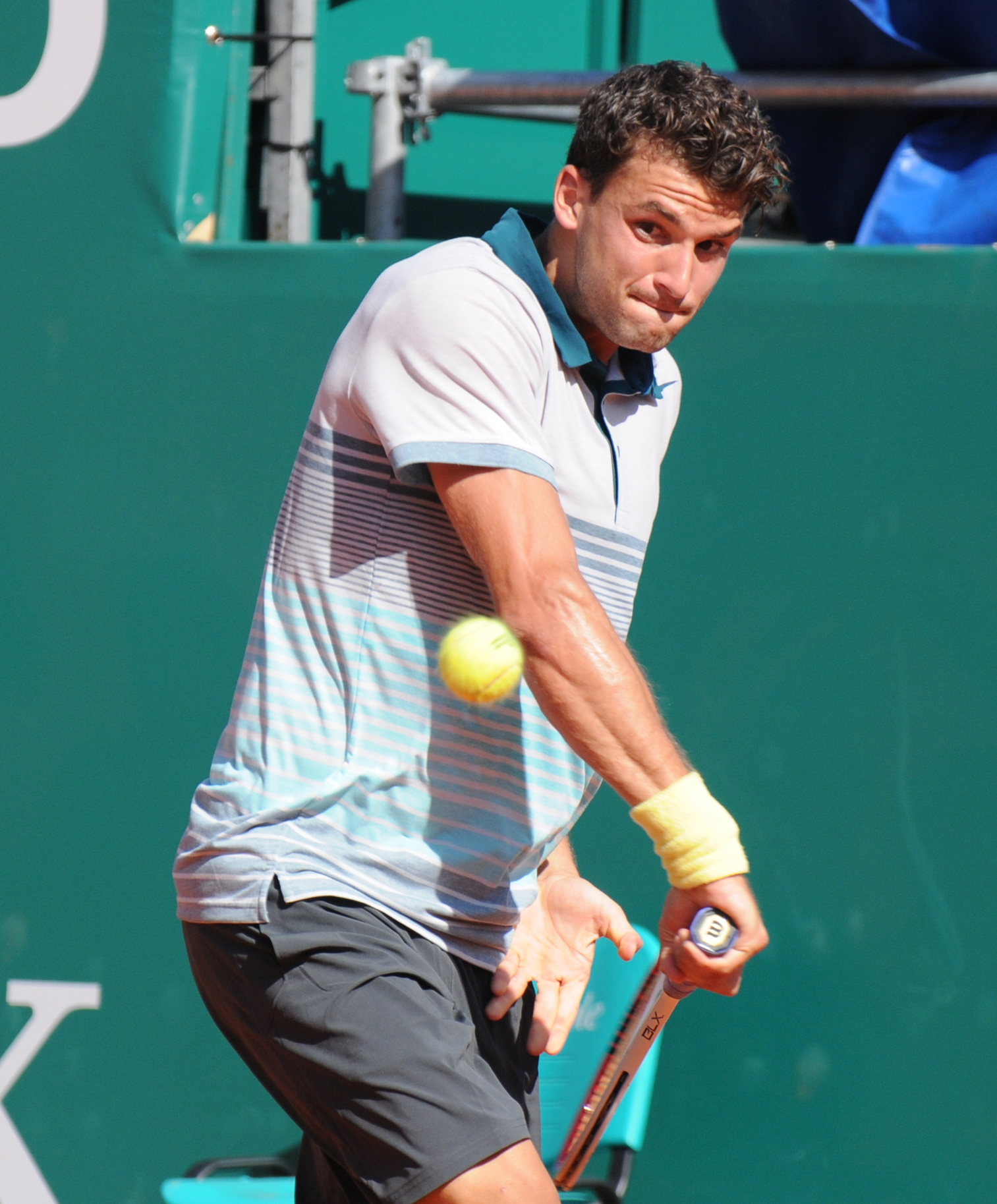 On the first day of the tournament